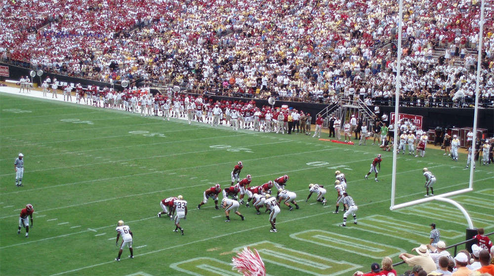 A football game between Alabama and Vanderbilt in Nashville, TN. Alabama won the game 24–10.